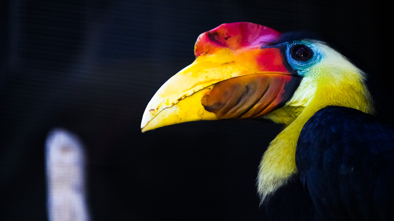 A male Wrinkled Hornbill at San Diego Zoo, California, USA.